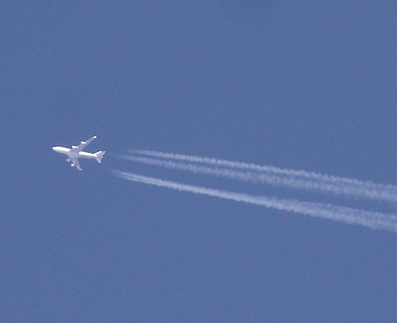 Aircraft in cruise at roughly 35,000 feet above Bristol, England. The aircraft seems to be a Boeing 747. Photographed by Adrian Pingstone in October 2005 and released to the public domain.